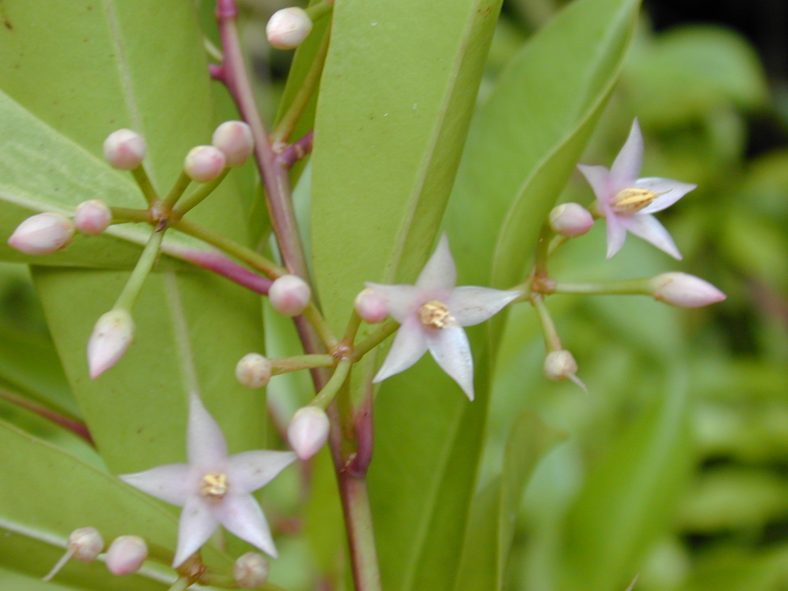 Ardisia elliptica (flowers). Location: Maui, Wahinepee